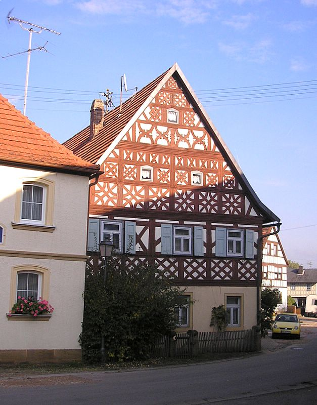 Mürsbach (Markt Rattelsdorf, Landkreis Bamberg, Upper Franconia, Germany). Timber frame building at the village centre